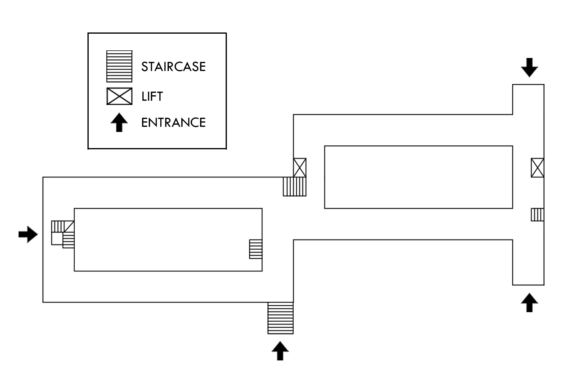 Layout Plan of Blue Boy Mansion